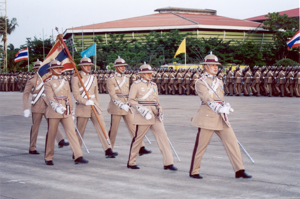 หมู่เชิญธงชัย ในพิธีถวายสัตย์ปฏิญาณตนและสวนสนามต่อองค์พระบาทสมเด็จพระเจ้าอยู่หัว และสมเด็จพระนางเจ้าฯพระบรมราชินีนาถ ในโอกาสเสด็จงาน 100 ปี โรงเรียนนายร้อยตำรวจ เมื่อวันที่ 19 เมษายน พ.ศ.2545 ณ โรงเรียนนายร้อยตำรวจ อ.สามพราน จ.นครปฐม